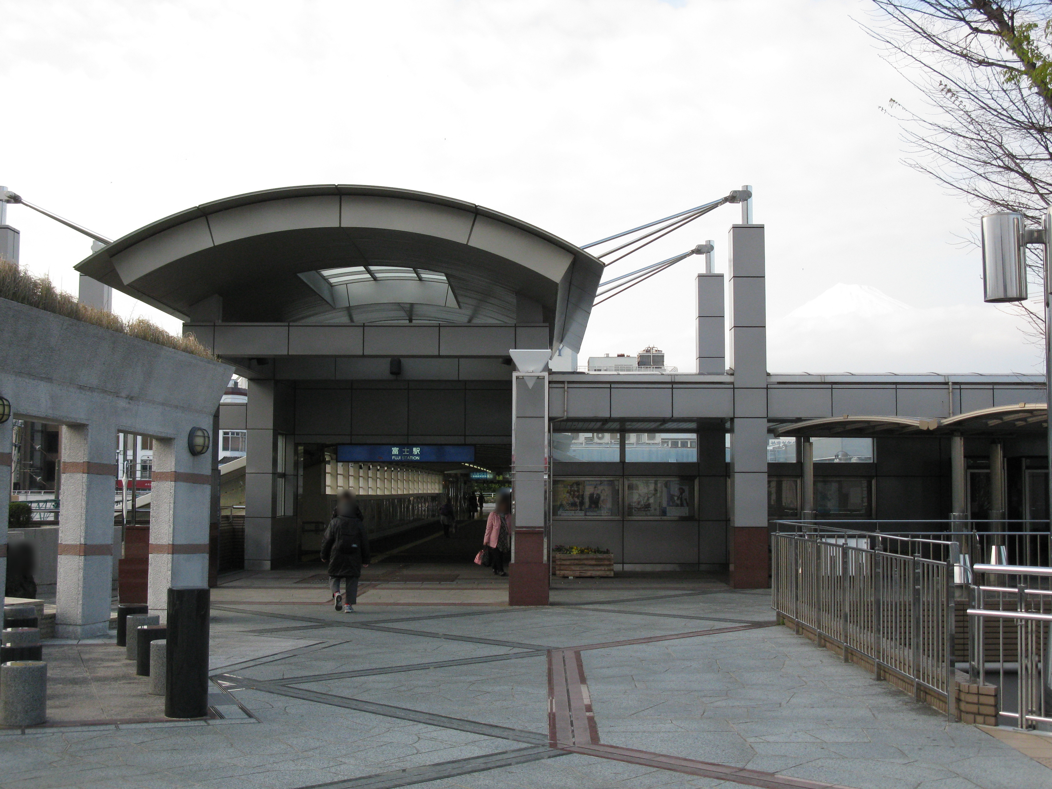 Fuji Station south entrance (Central Japan Railway(JR Central) Tōkaidō Main Line, Minobu Line)